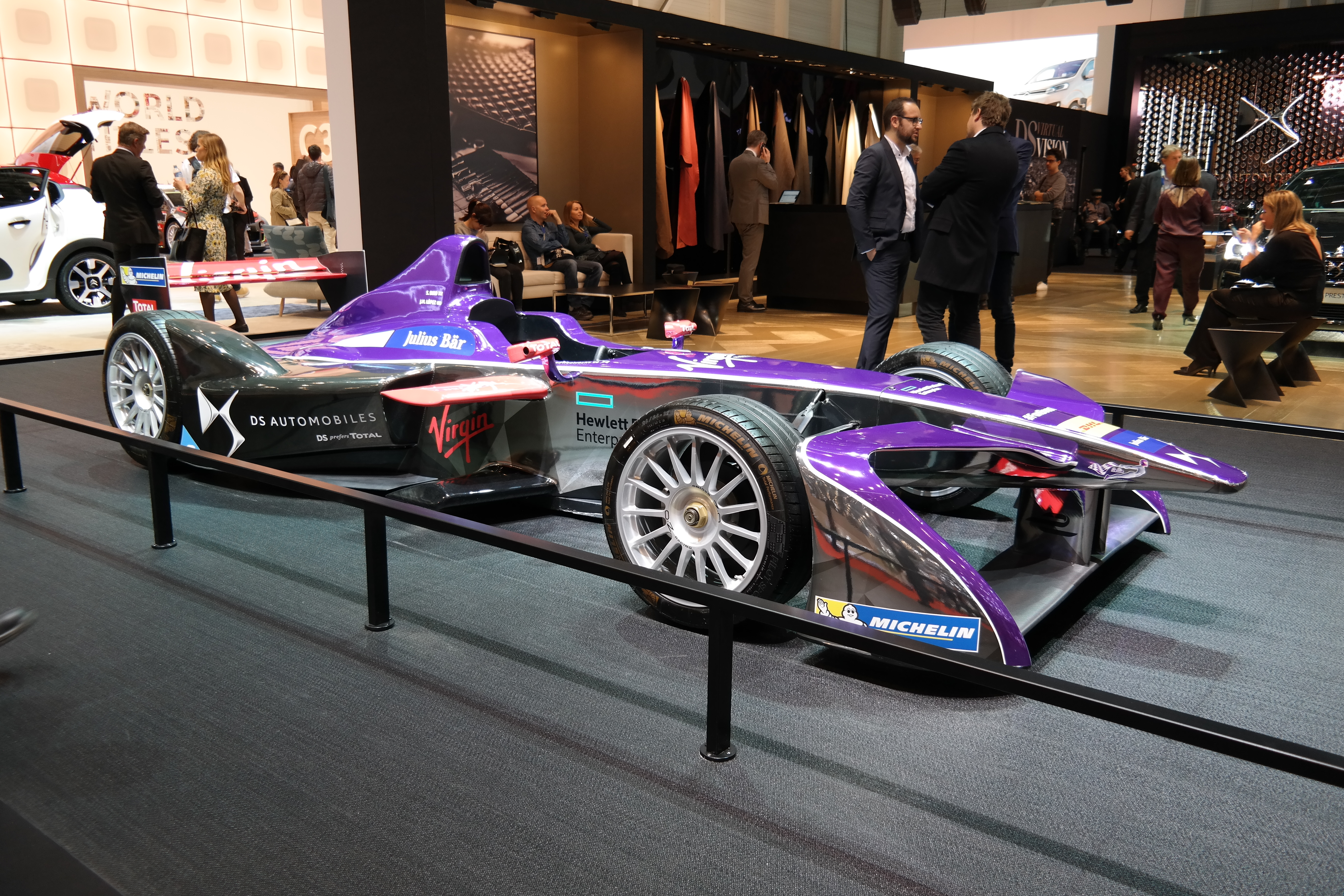 Geneva Motor Show 2017 (photo taken on the first press day)